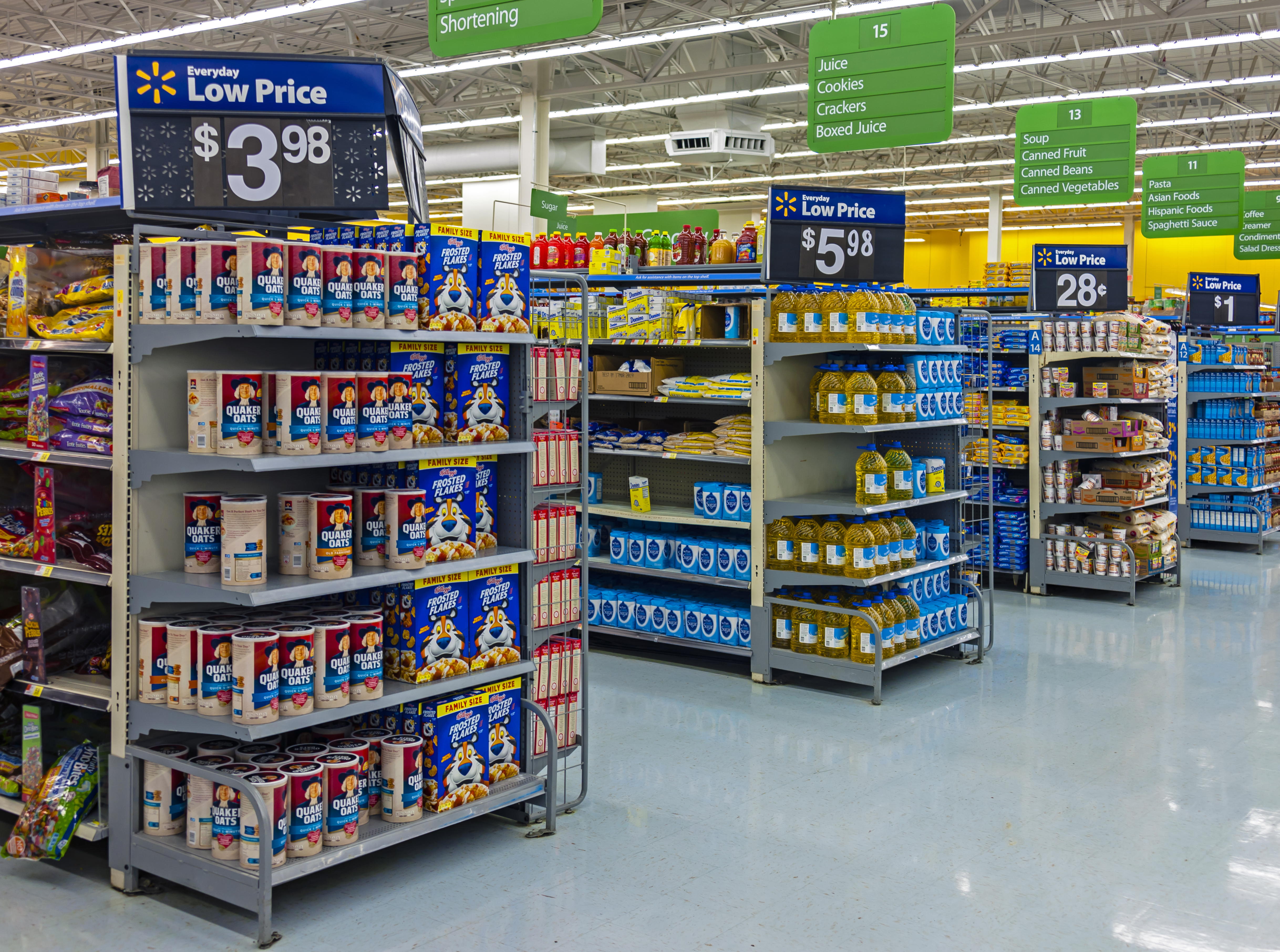 Endcaps at a Walmart store in the town of Wallkill, NY